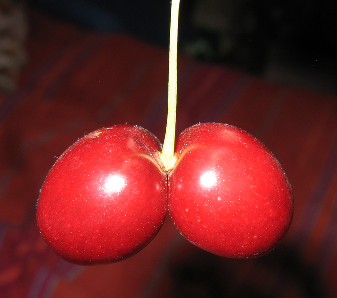 A mutated split cherry